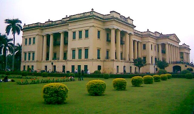 Source: Nokia 3110c mobile camera by Sourav Roy, edited by User:Rahulghose